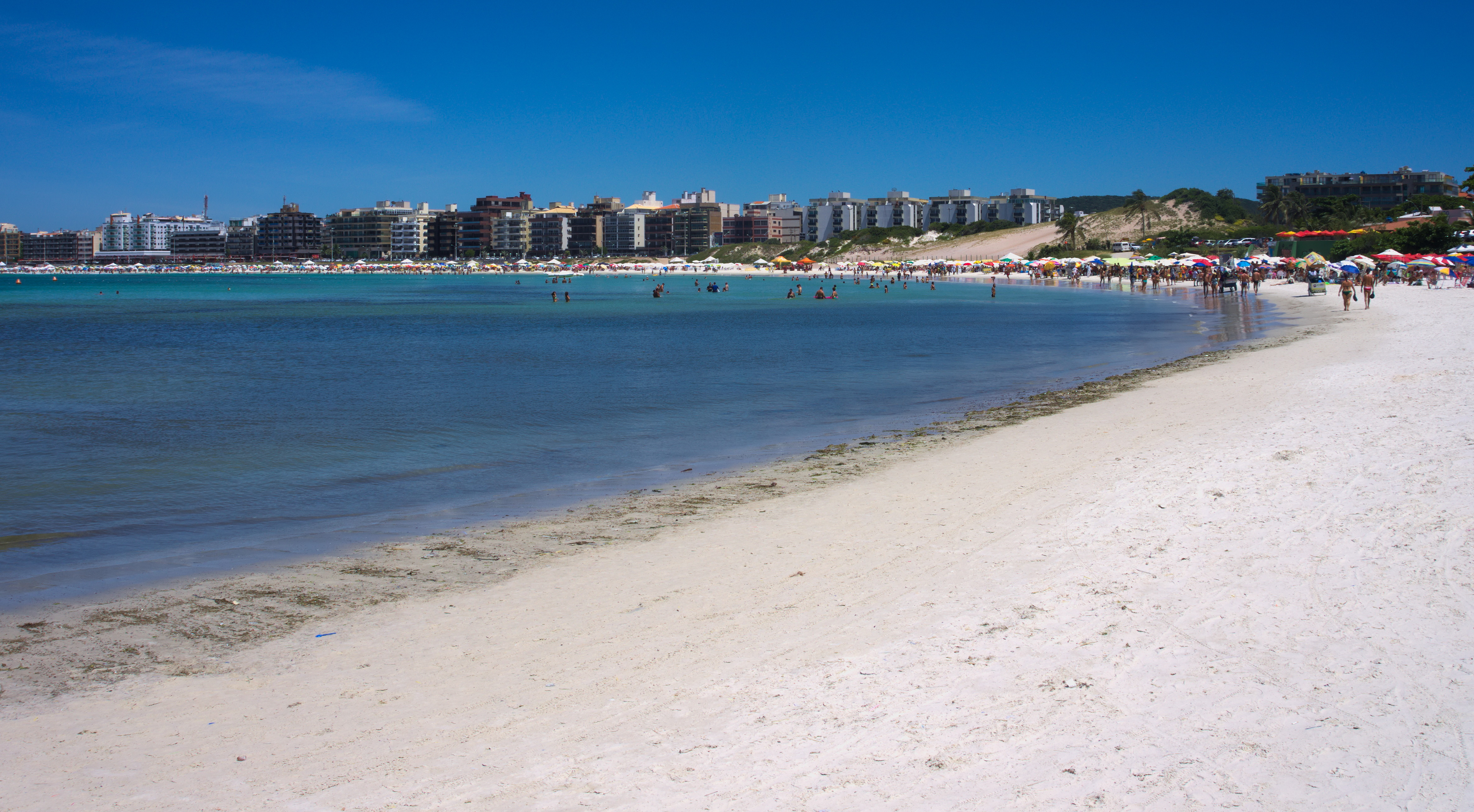 View of Forte Sao Mateo beach, Brazil